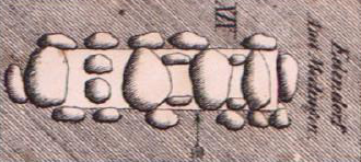 Megalithic tomb near Edendorf, Sprockhoff-No. 751